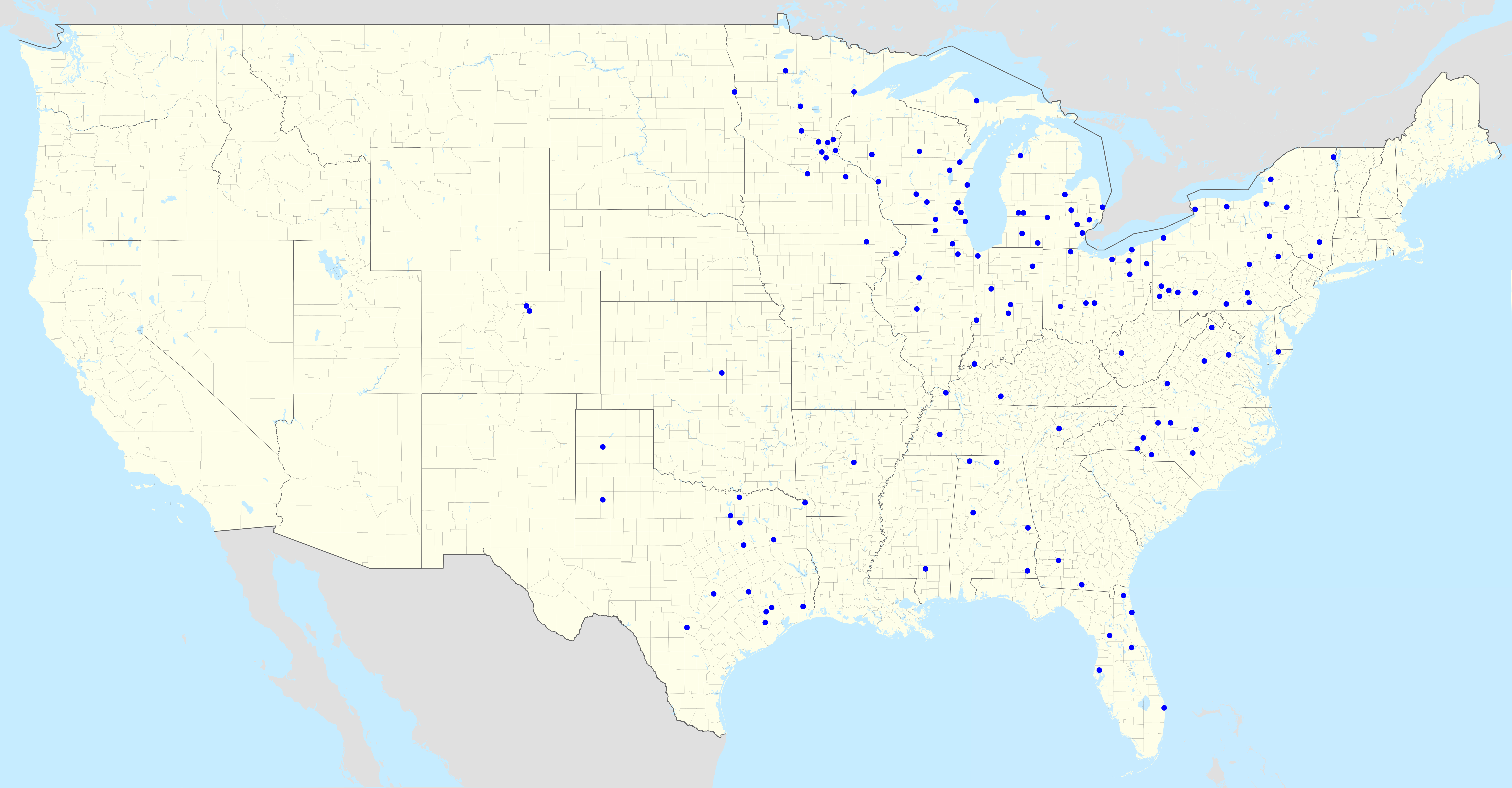 Footprint of Gander Mountain stores within the United States.